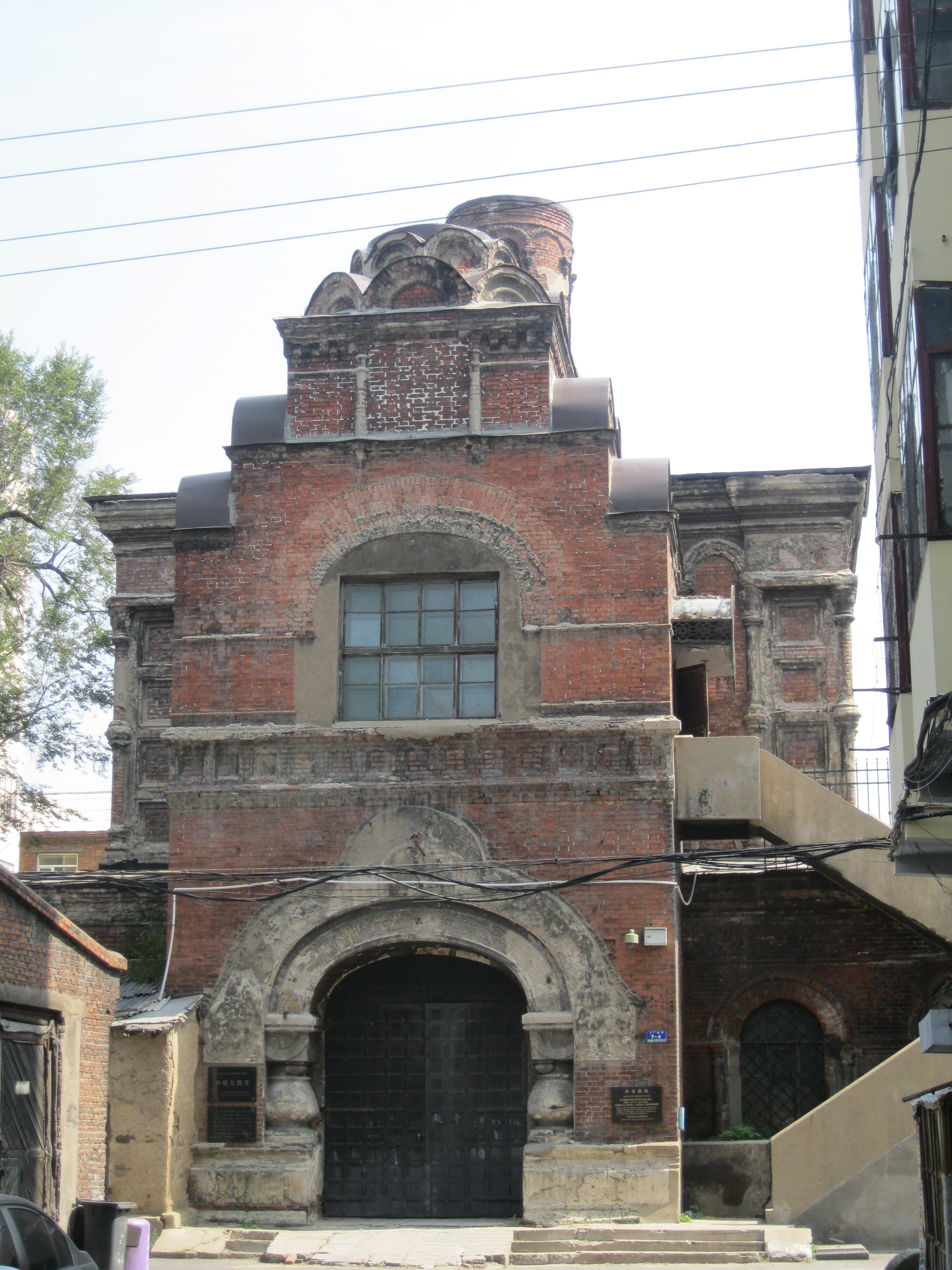 Iviron church in Harbin (2012)